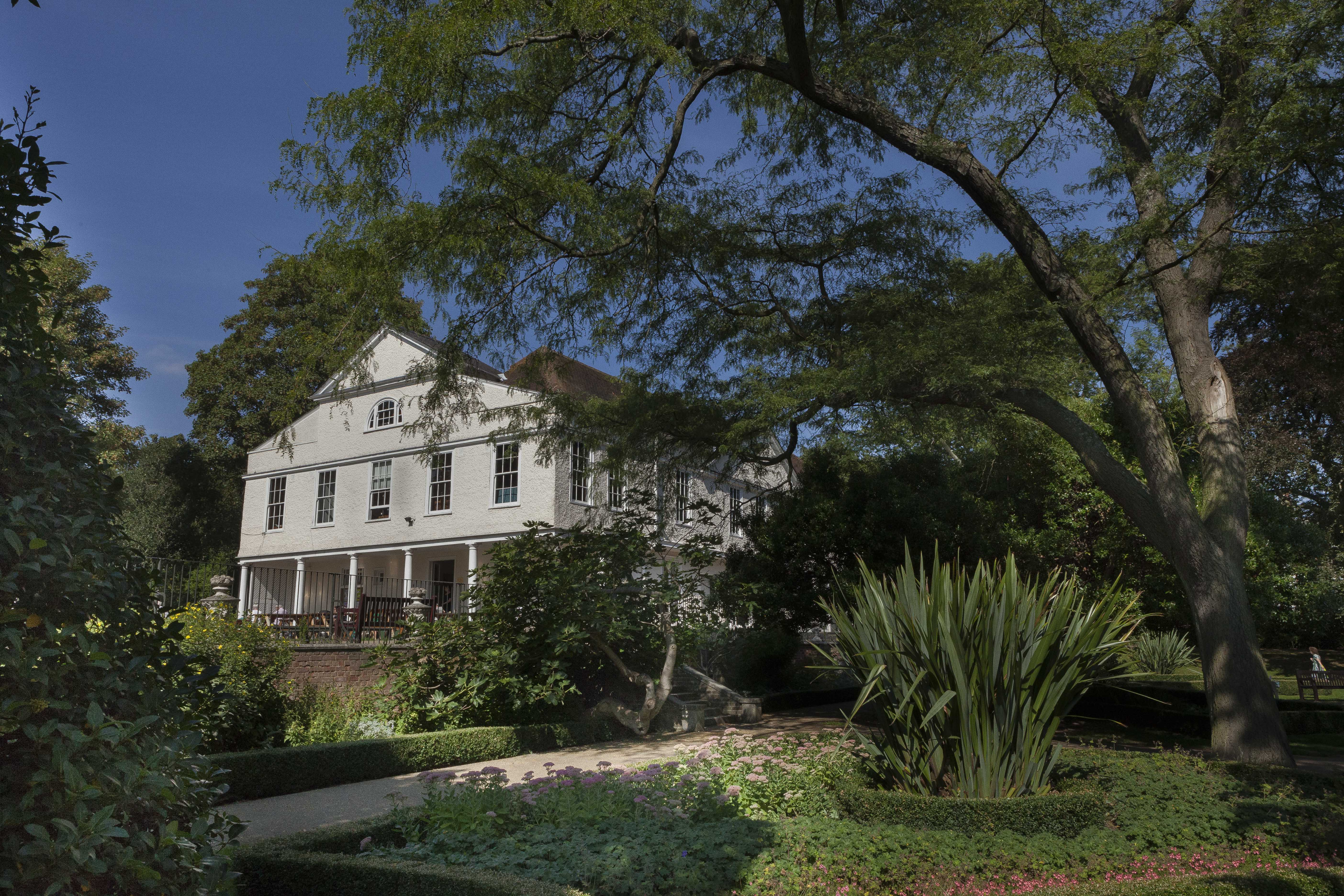 LAUDERDALE HOUSE Wikidata has entry Q6497862 with data related to this building.